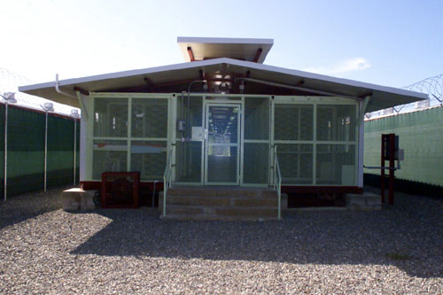 A 48-person detention block at Camp Delta, Guantanamo Bay, Cuba.